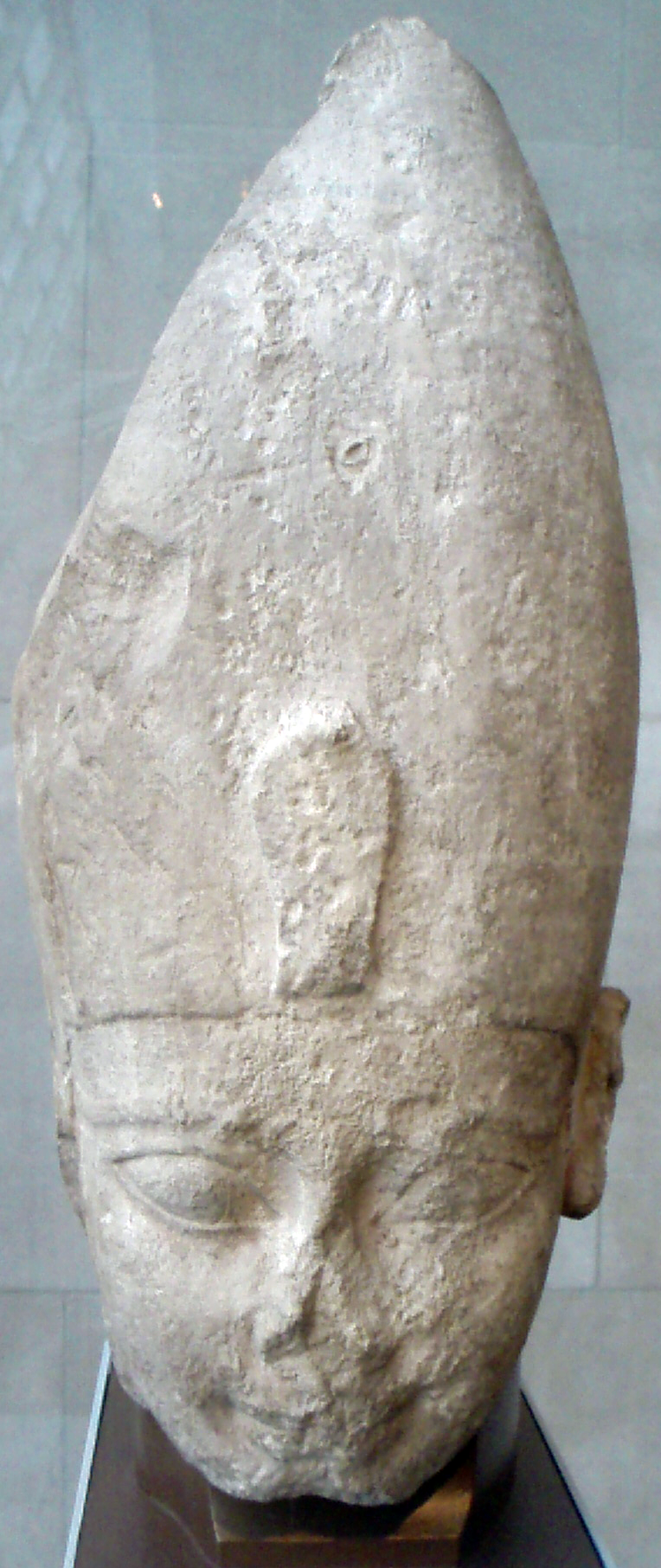 Limestone statue head of Ahmose I wearing the White Crown of Upper Egypt. Early 18th dynasty, circa 1150-1525 B.C.